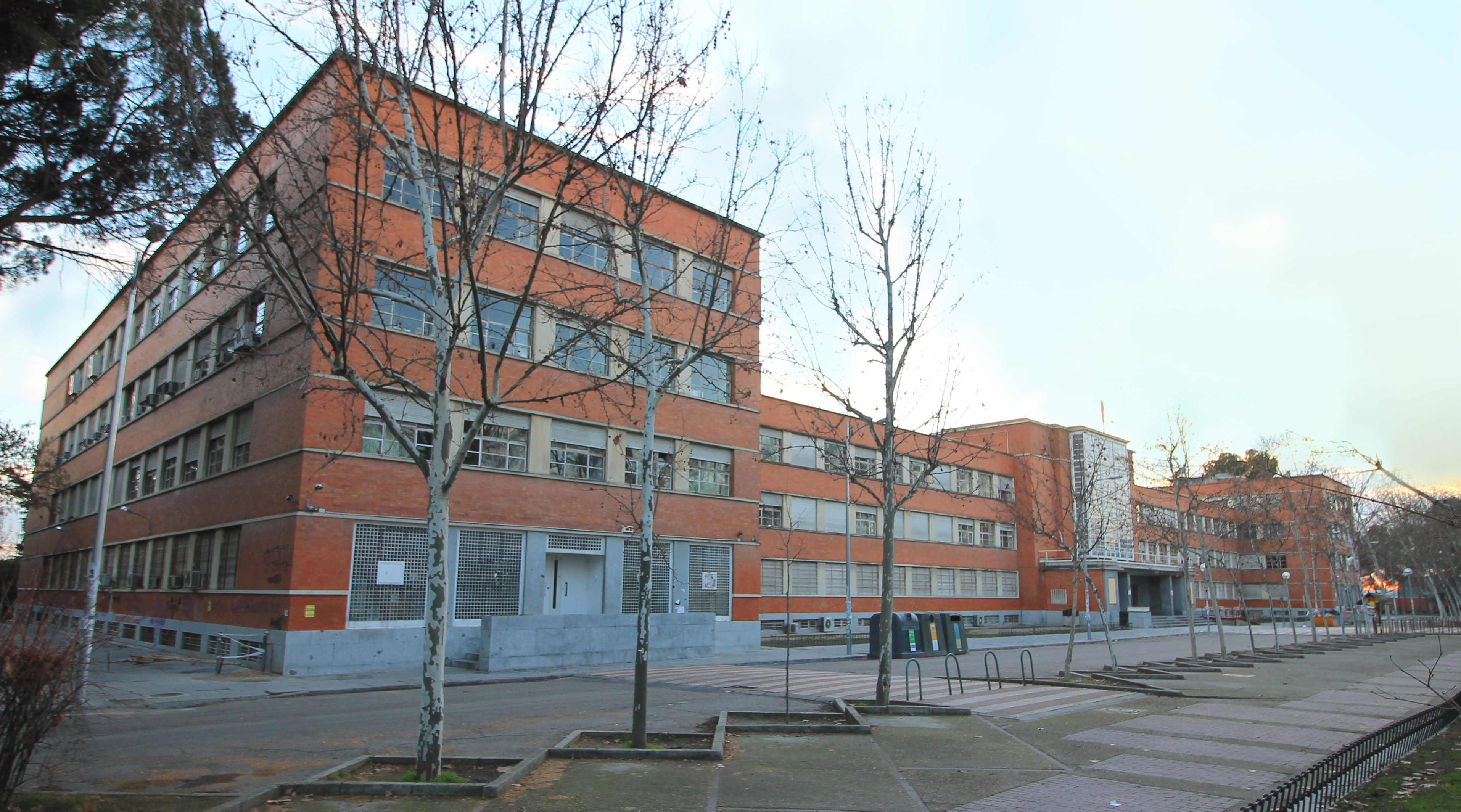 Home of the faculties of Philology and Philosophy of the Complutense University of Madrid (Spain). Building from 1936.